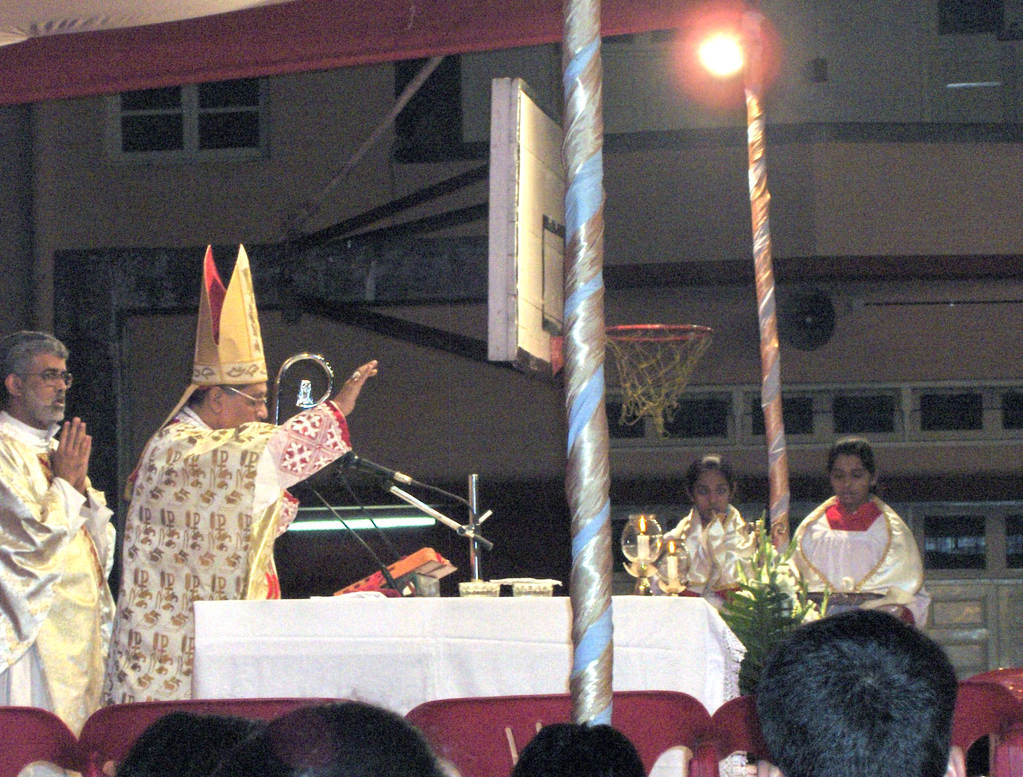 Ivan Cardinal Dias delivering a sermon during the Christmas midnight mass at the Cathedral of the Holy Name in Mumbai on 25-December-2005